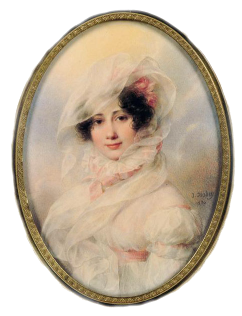 Catherine Bagration-Skavronskaya (?) (Wrong attribution? She should be blond).